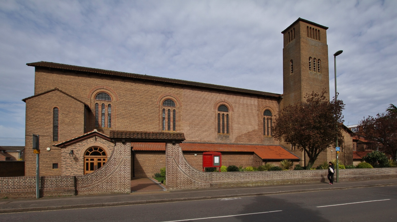 Roman Catholic church of St Michael, Fordbridge Road, Middlesex (now Surrey), seen from east south-east